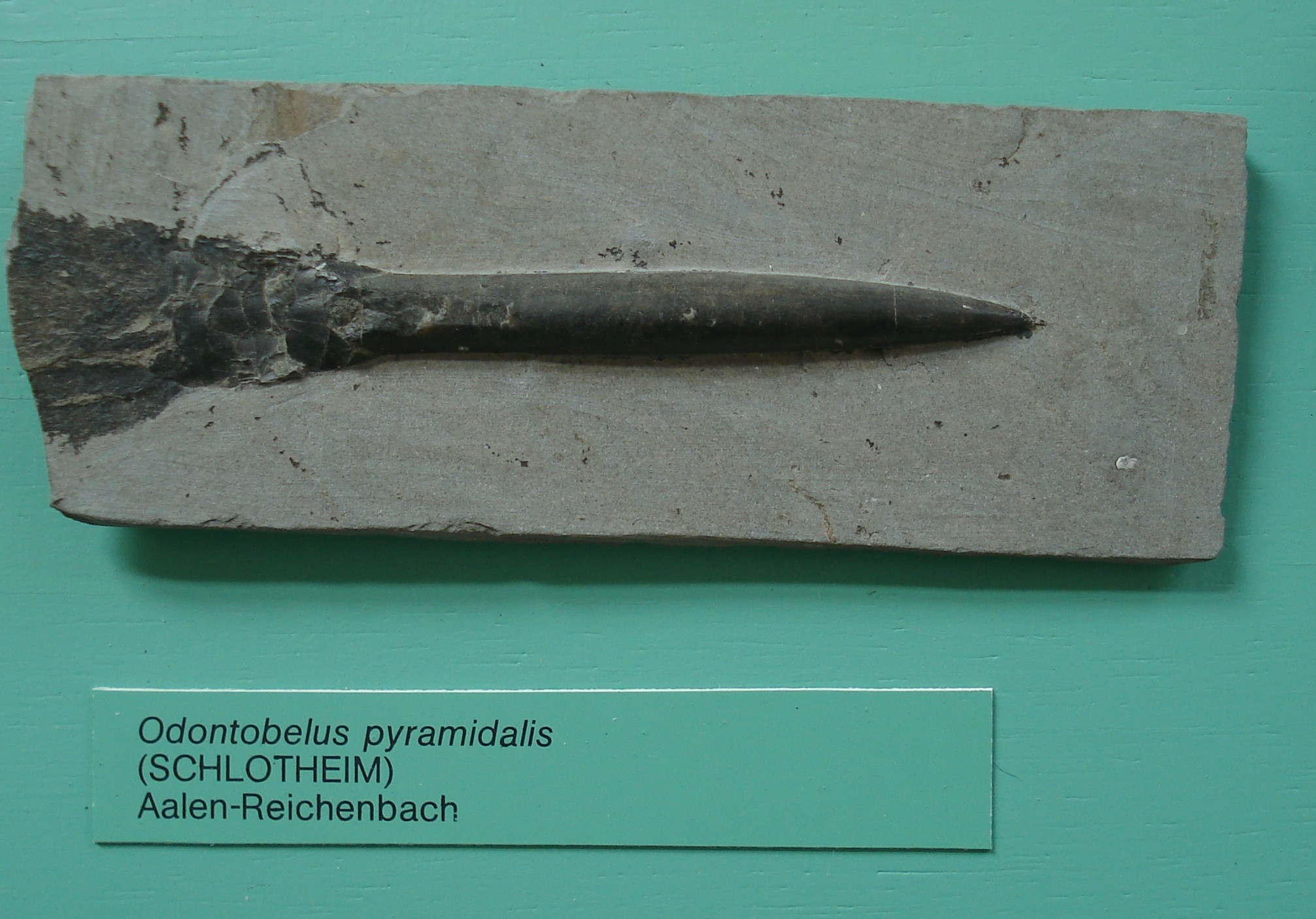 fossil of Acrocoelites (Odontobelus) pyramidalis